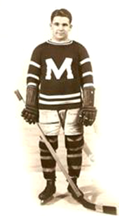 Charles Dinsmore standing in Montreal Maroons hockey uniform.